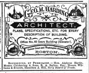 Advertisement for Geo. M. Harding, architect, no.60 Sears building; Boston, Massachusetts, USA